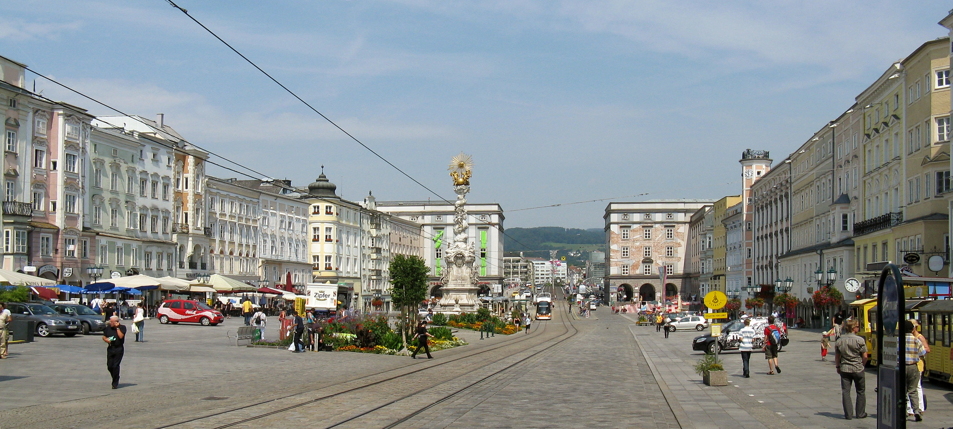 Main Square in Linz, Austria